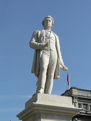 Took image myself - free to be used in the public domain provided the image is attributed to me Graham Hickey. Thanks. Summary Statue to Sir John Gray on Dublin's O'Connell Street. Designed by Thomas Farrell, the statue is sited close to the Abbey Street offices of the Freeman's Journal - of which Gray had been proprietor. It was unveiled on June 24 1879, with the inscription: Erected by public subscription to Sir John Gray Knt. M.D. J.P., Proprietor of The Freeman’s Journal; MP for Kilkenny City, Chairman of the Dublin Corporation Water Works Committee 1863 to 1875 During which period pre-eminently through his exertions the Vartry water supply was introduced to city and suburbs Born July 13 1815 Died April 9 1875